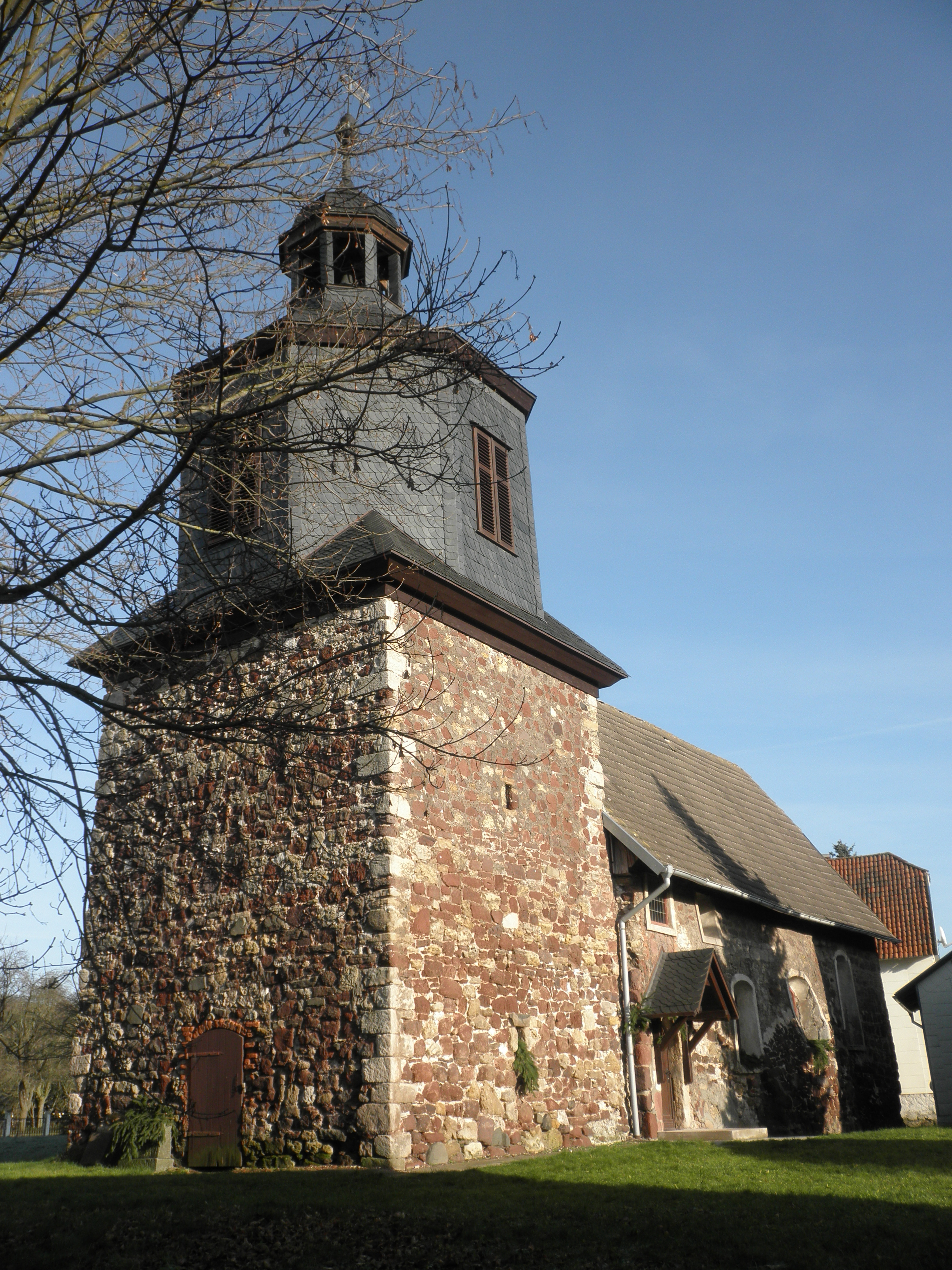 Church in Harzungen in Thuringia